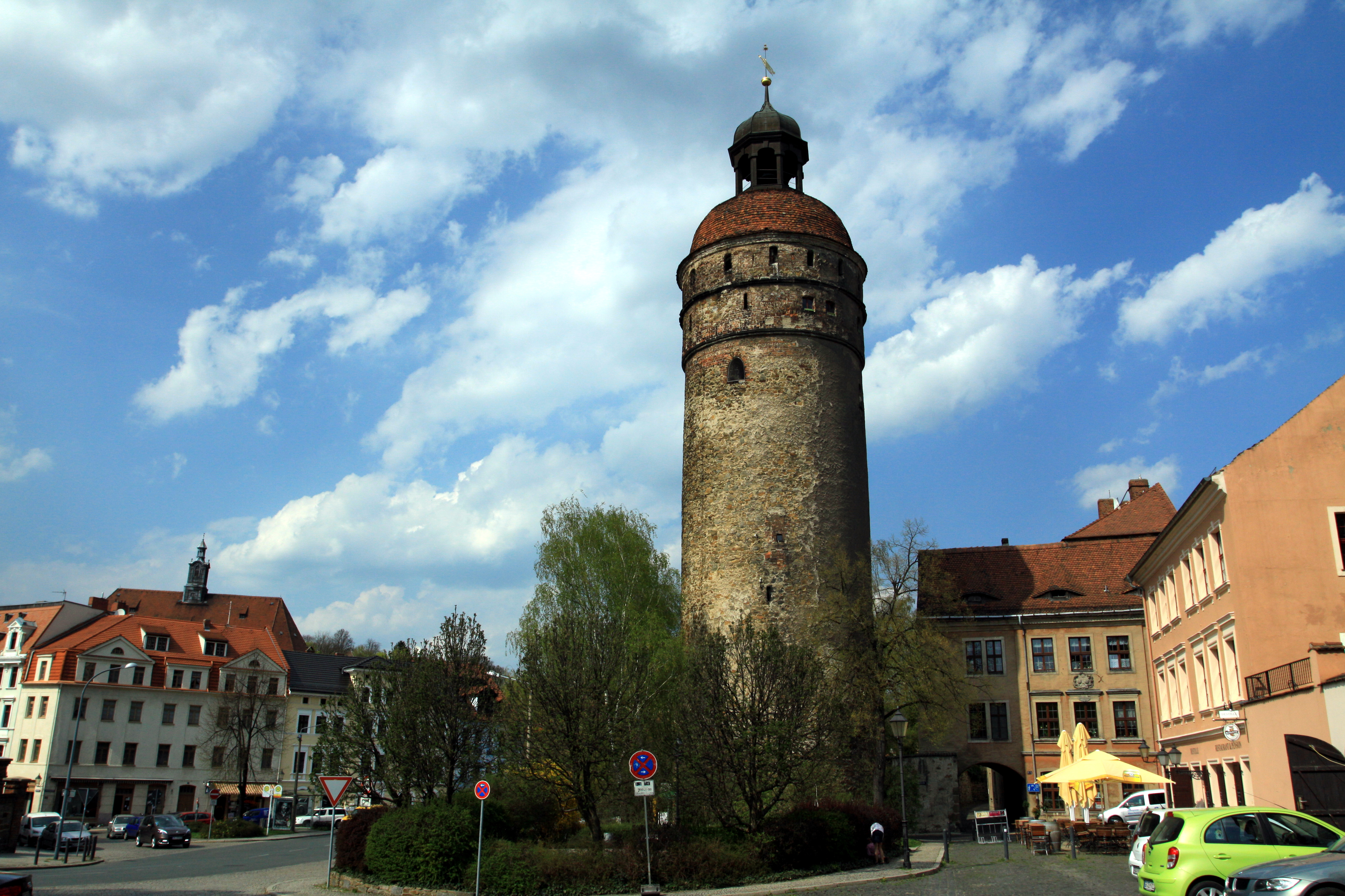 Nikolaiturm in Görlitz, Germany.